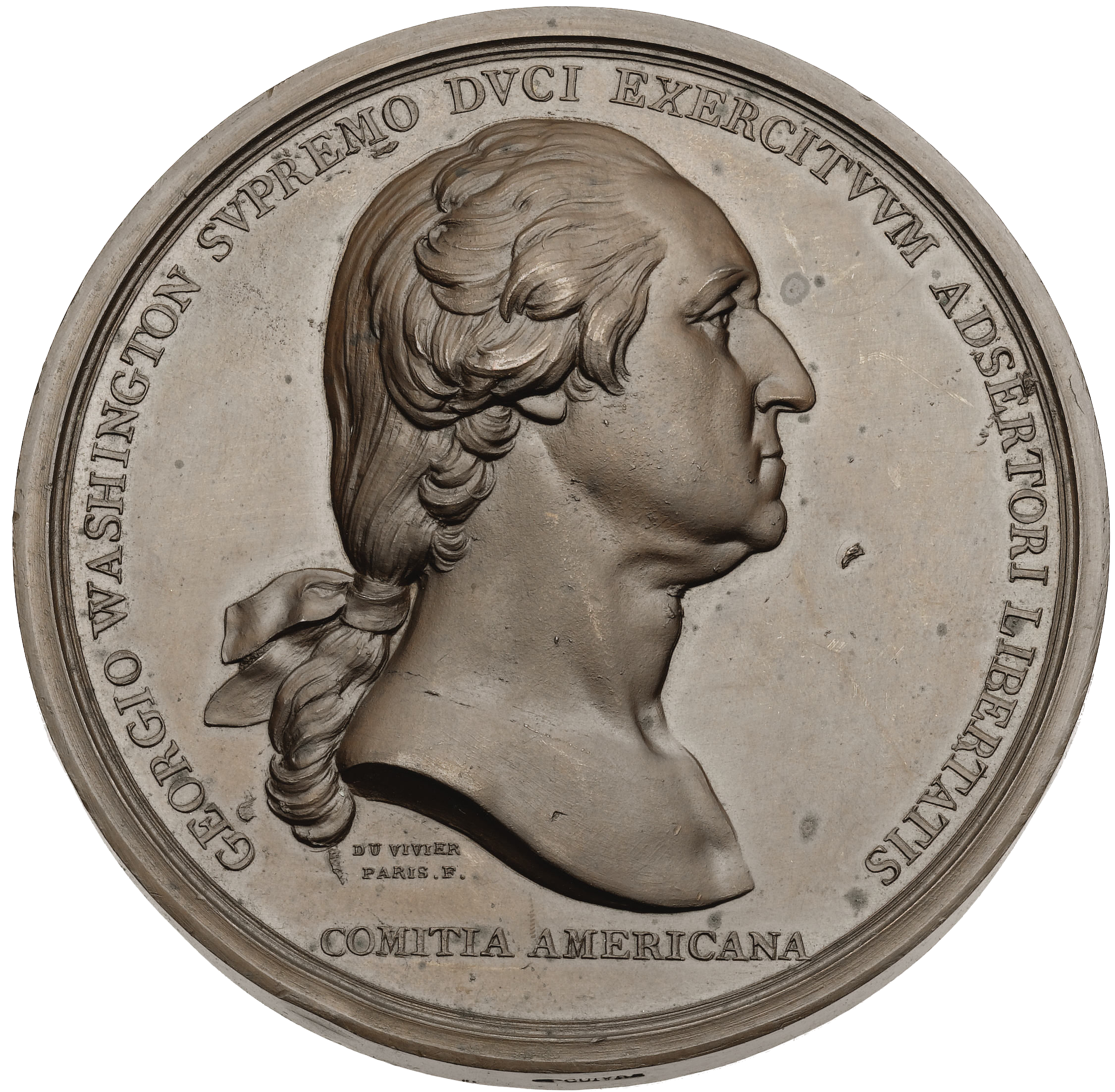 1776 Washington Before Boston Comitia Americana Second Restrike, (Baker-48G) (obv) (1100-28010)